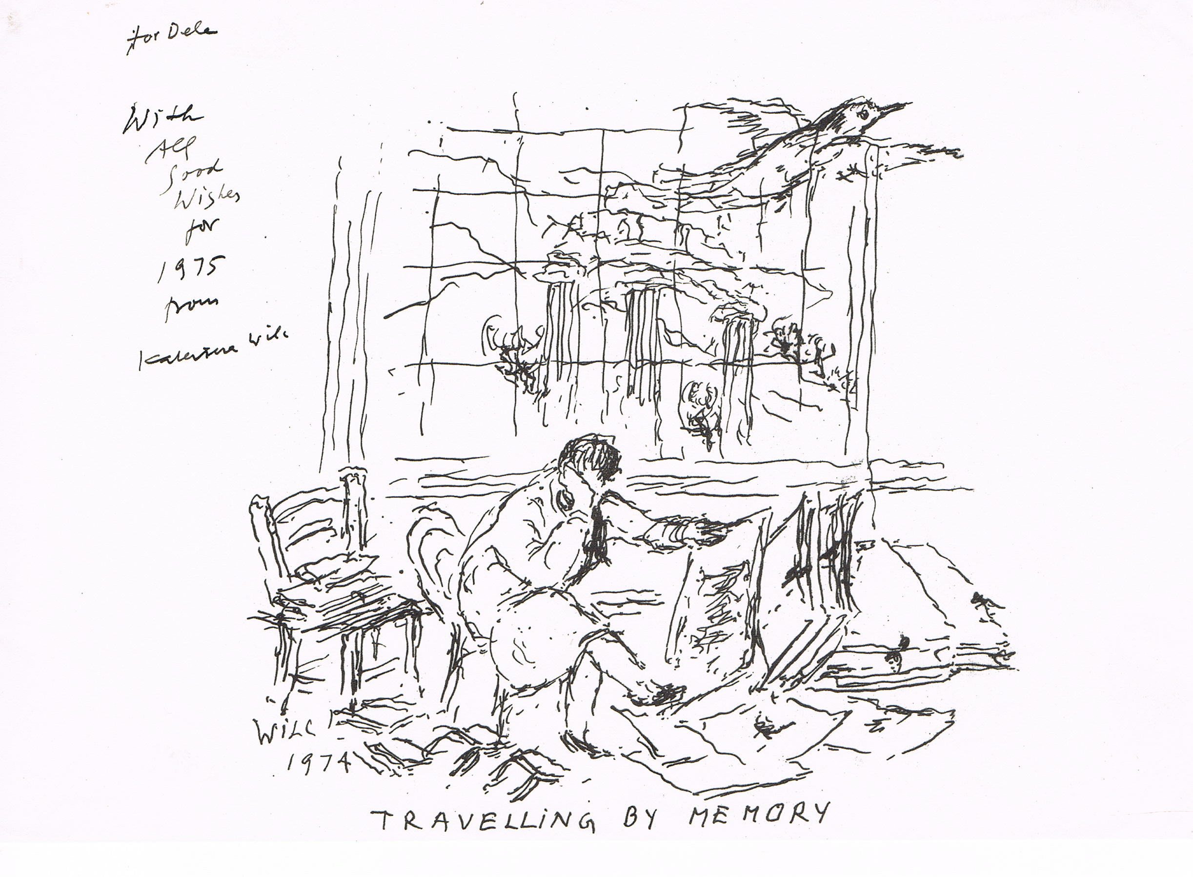 Drawing by Katerina Wilczynski "for Dela (Gerke) with all good wishes for 1975"